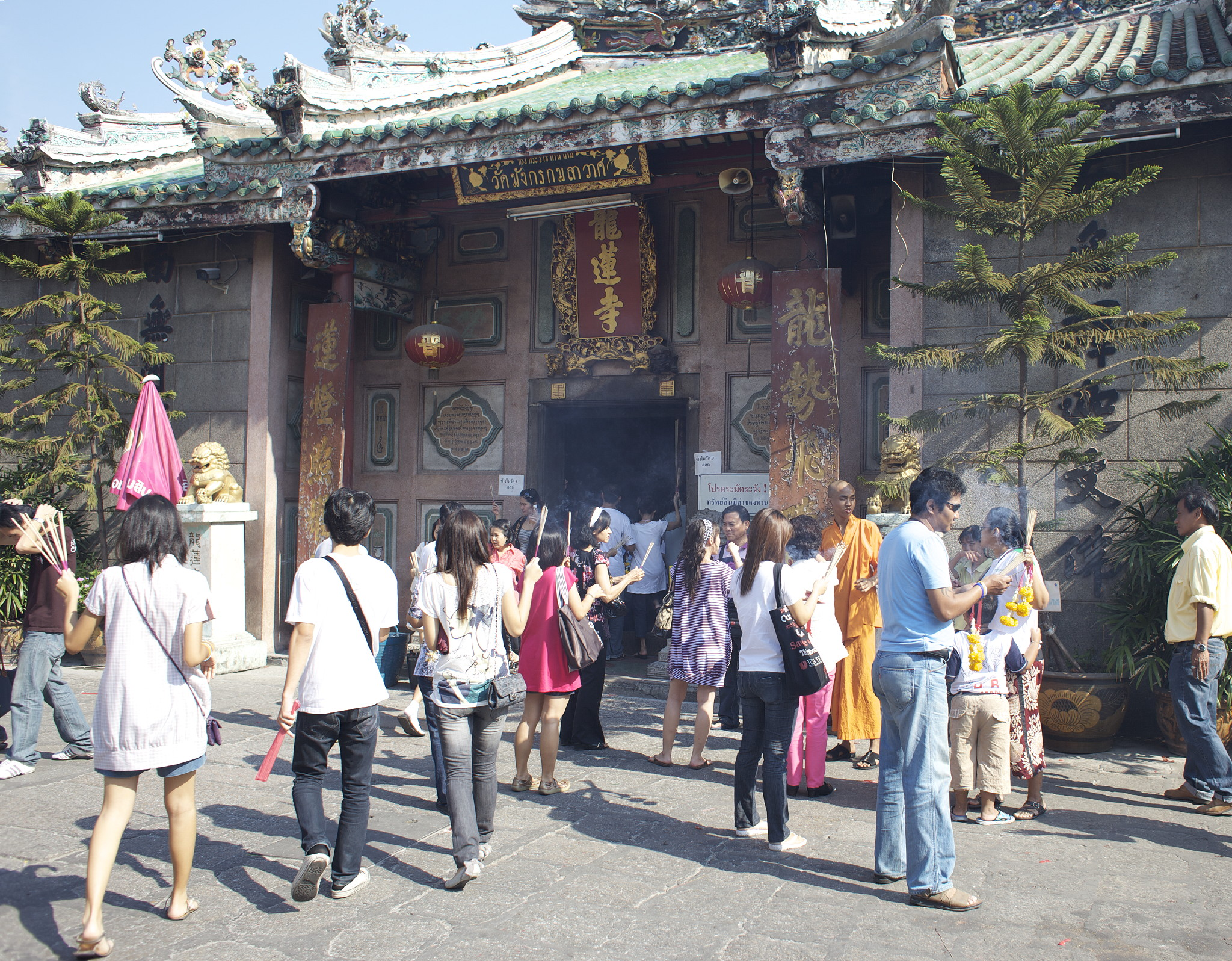 Wat Mangkon Kamalawat, Bangkok, Thailand